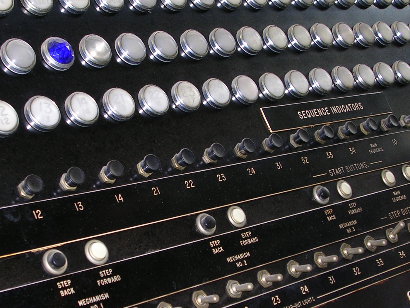 detail photo of Harvard Mark I computer